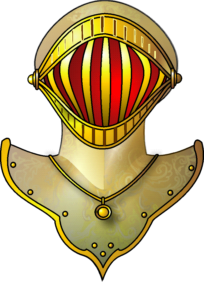 Prince Helmet